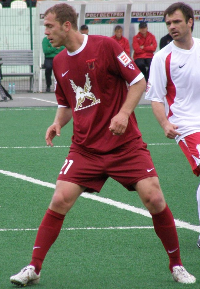 Roman Adamov in action for FC Rubin